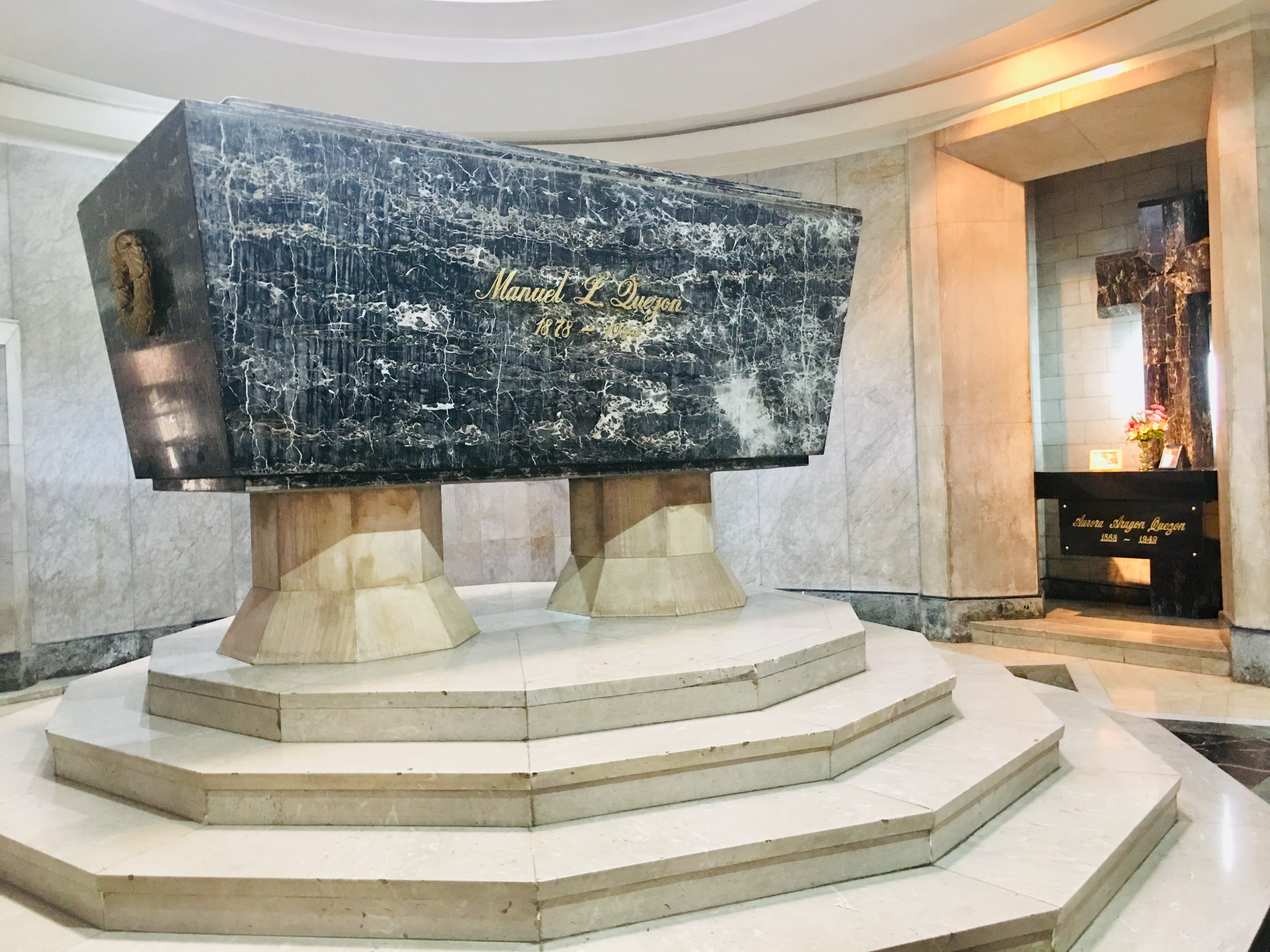 Tomb of President Manuel Luis Quezon